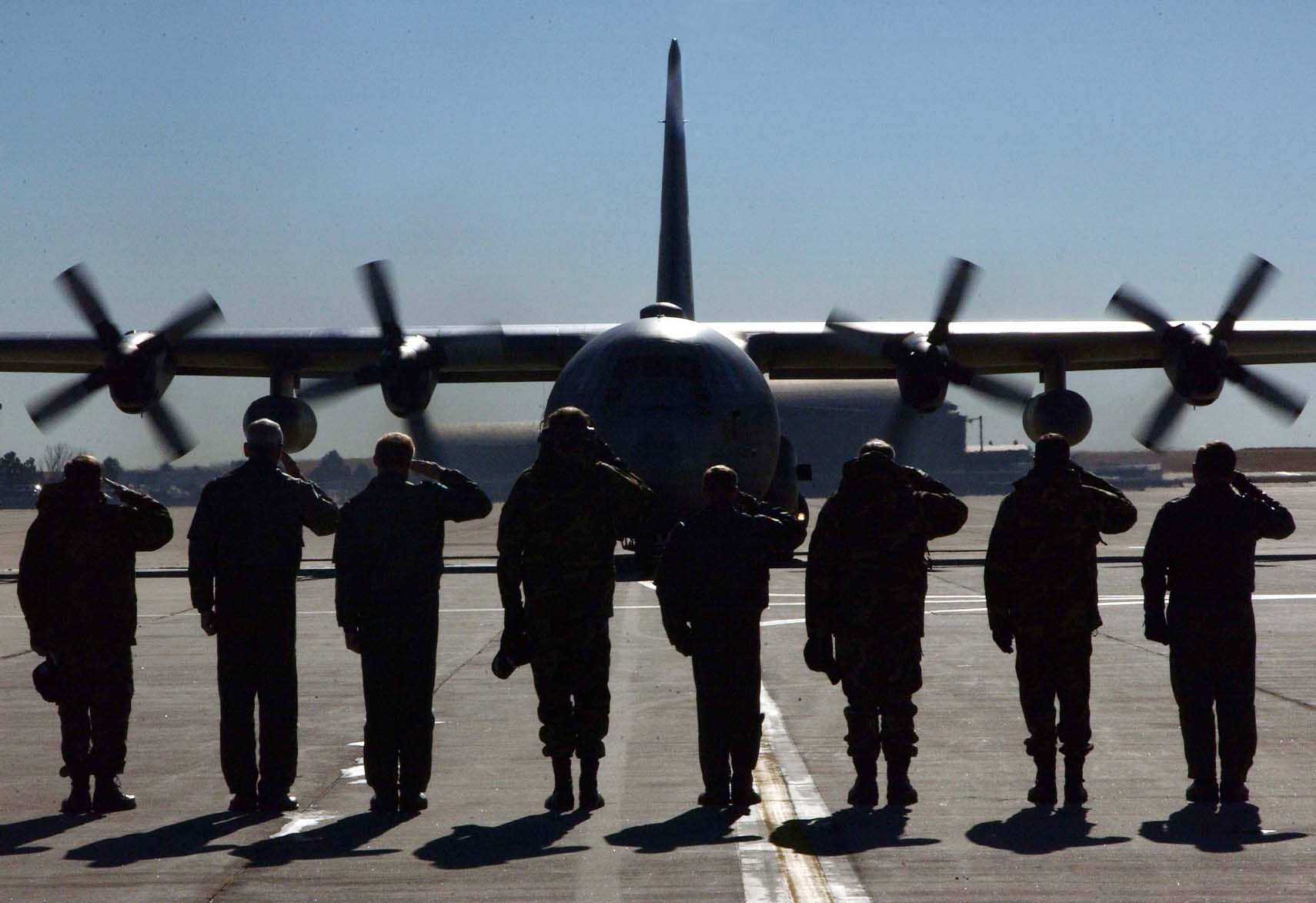 302nd Airlift Wing leadership salutes a C-130 as wing members prepare to deploy to Southwest Asia Feb. 11. The wing has held 10 deployments in support of U.S. Central Command operations since mobilizing in August 2005. (U. S. Air Force photo by Staff Sgt. Derrick M. Gildner) Source: 302 AW/PA.